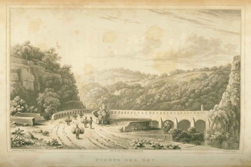 Illustration from Mexico in 1827 by Henry George Ward.